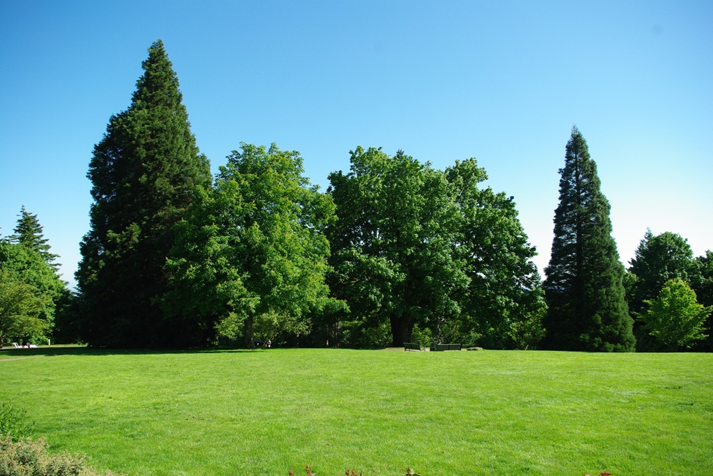 Lawn at Council Crest Park in Portland, Oregon, USA